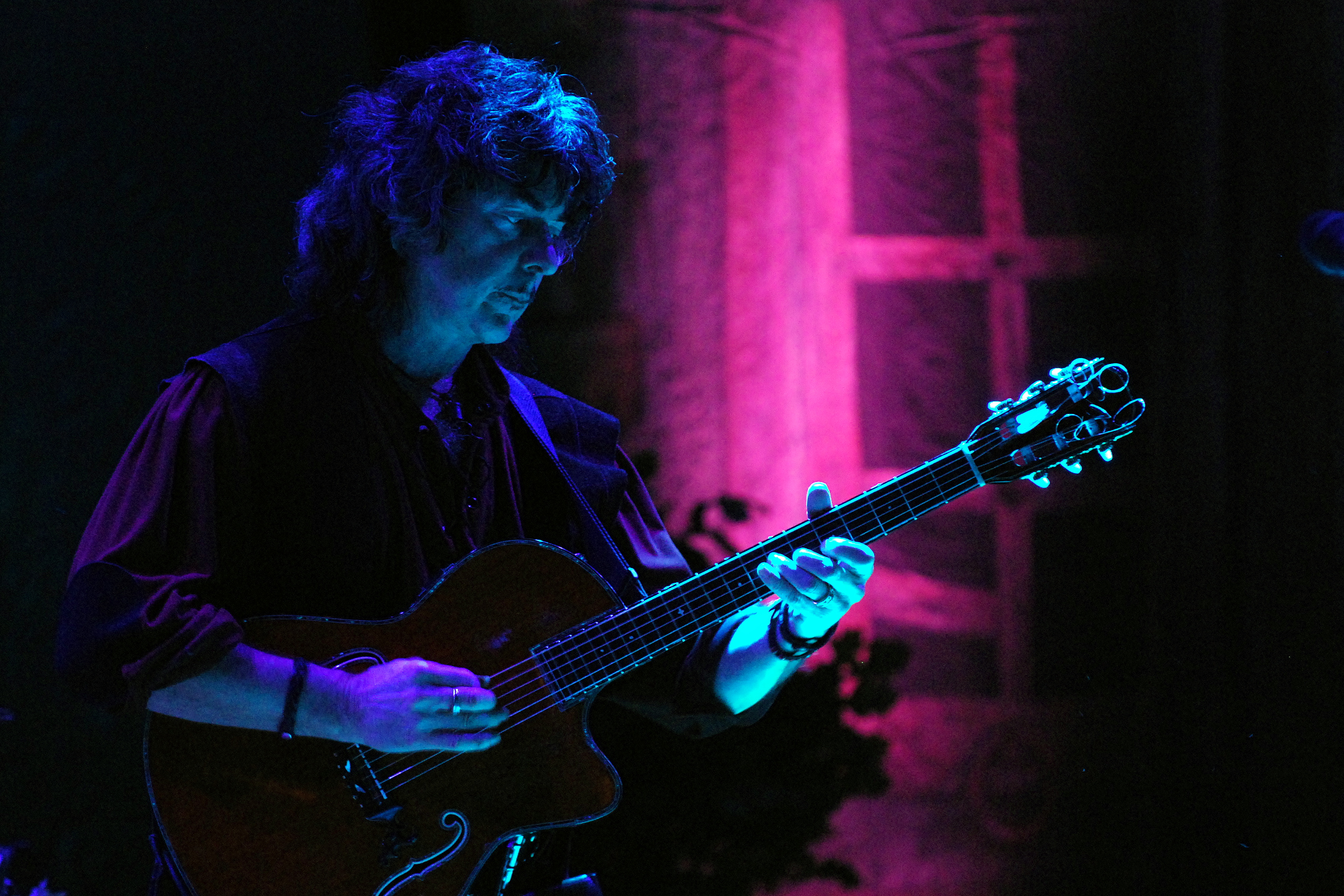 Ritchie Blackmore performing with the Blackmore's Night at the House of Blues, Chicago, IL, USA; October 17, 2009.